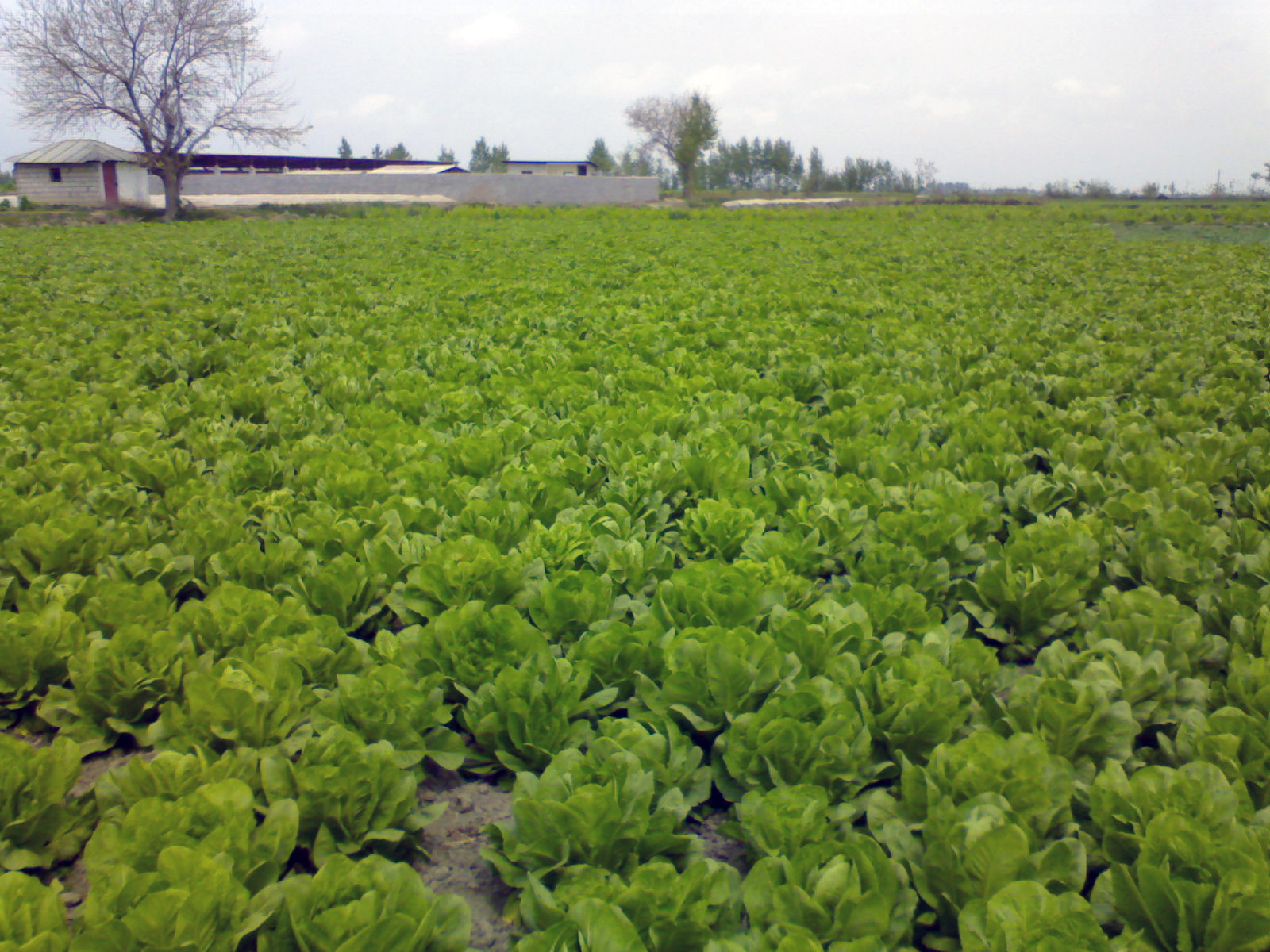 Lettuce fields in Dabudasht District, Amol County, Mazandaran province, Iran.